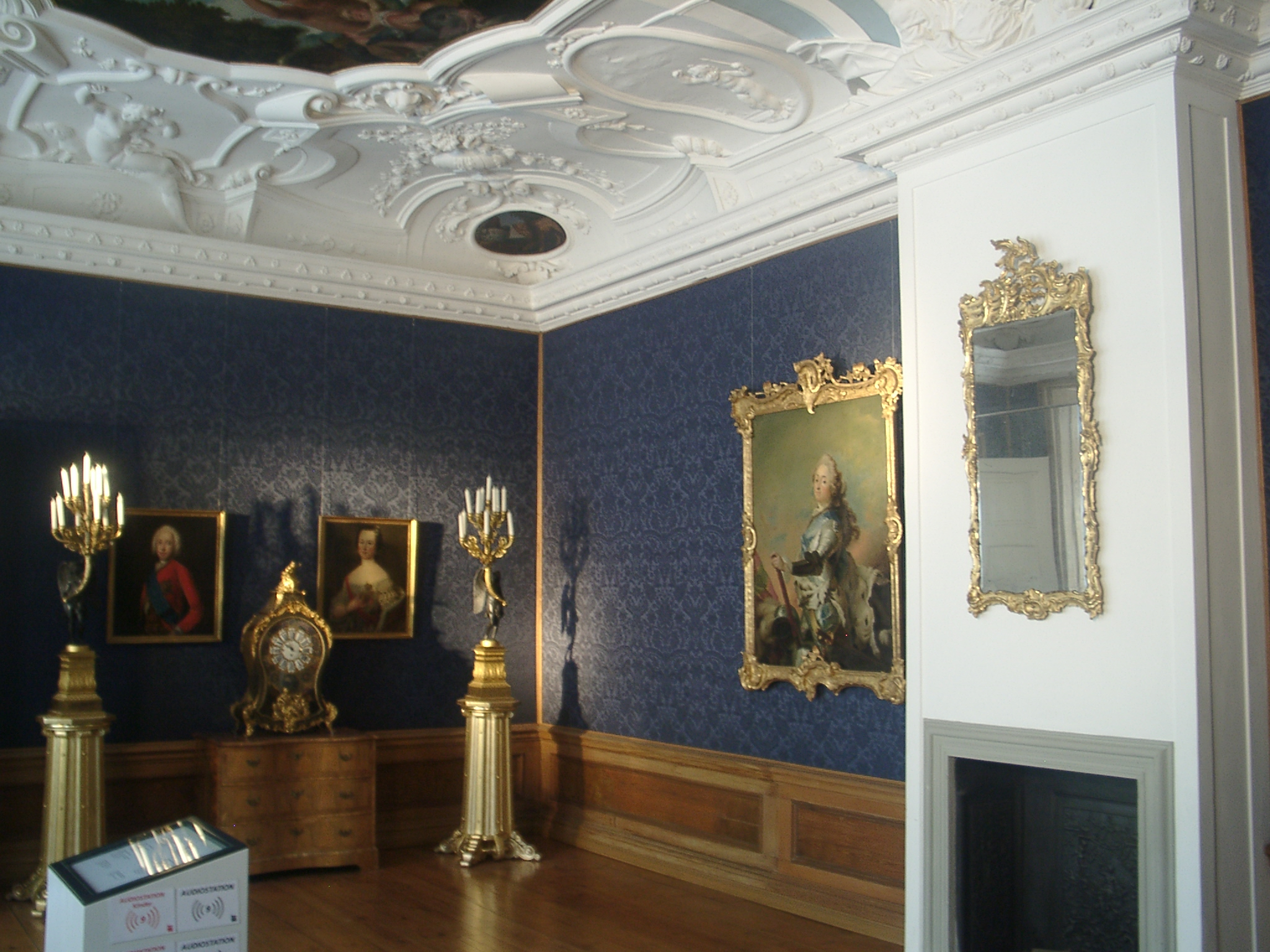 Schloss Eutin This picture has been placed in the public domain in honor of Michael Hart, founder of Project Gutenberg. 8 September 2011.